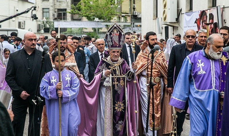 Armenian Genocide Remembrance Day in Saint Sarkis Cathedral, Tehran